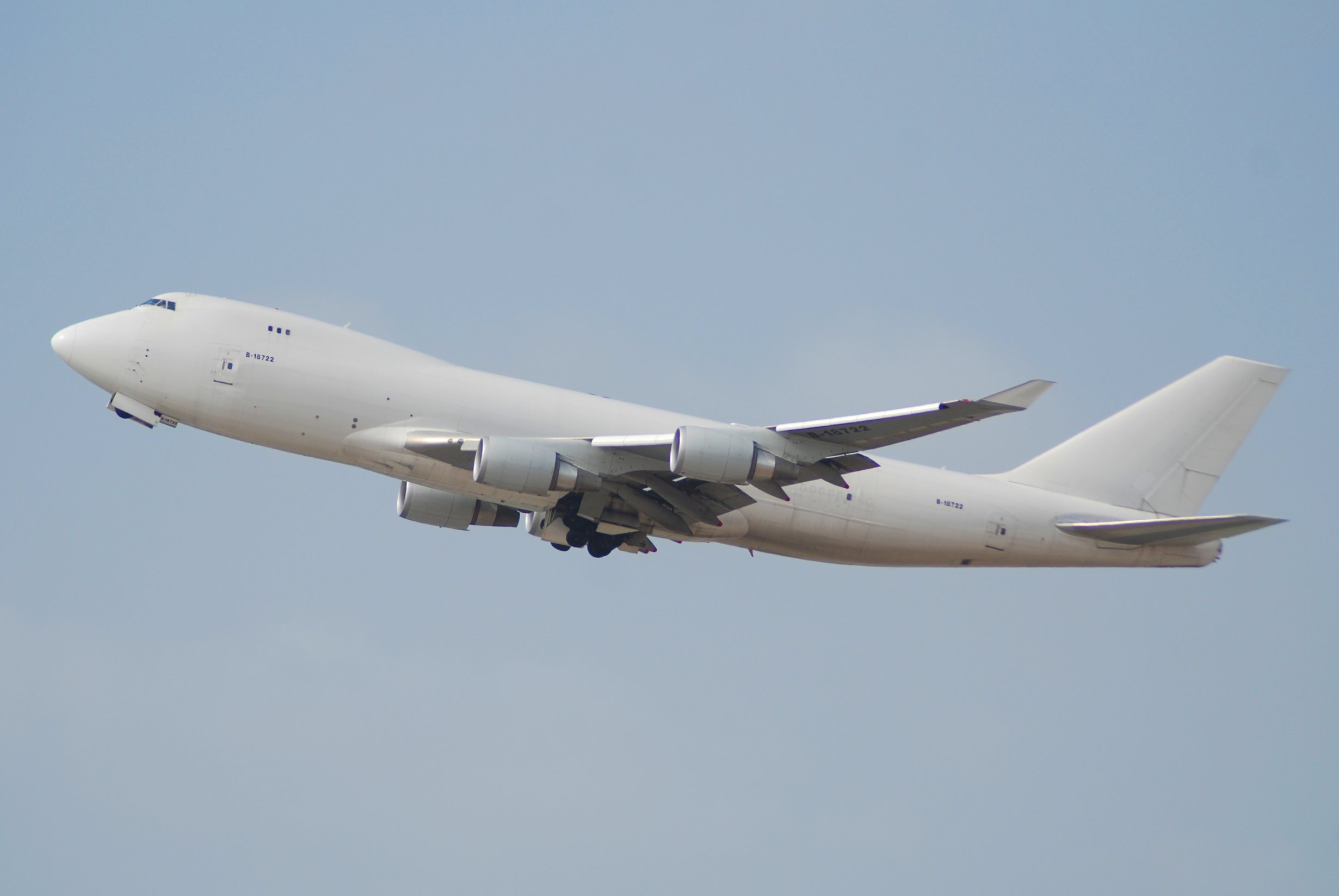 China Airlines Cargo Boeing 747-400F; B-18722@LAX;17.04.2007/462ru